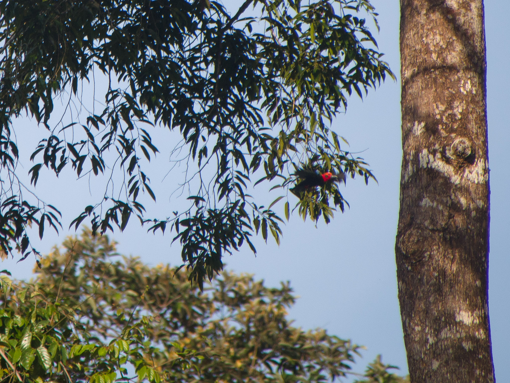 The star bird of Sepilok, unfortunately very distant.